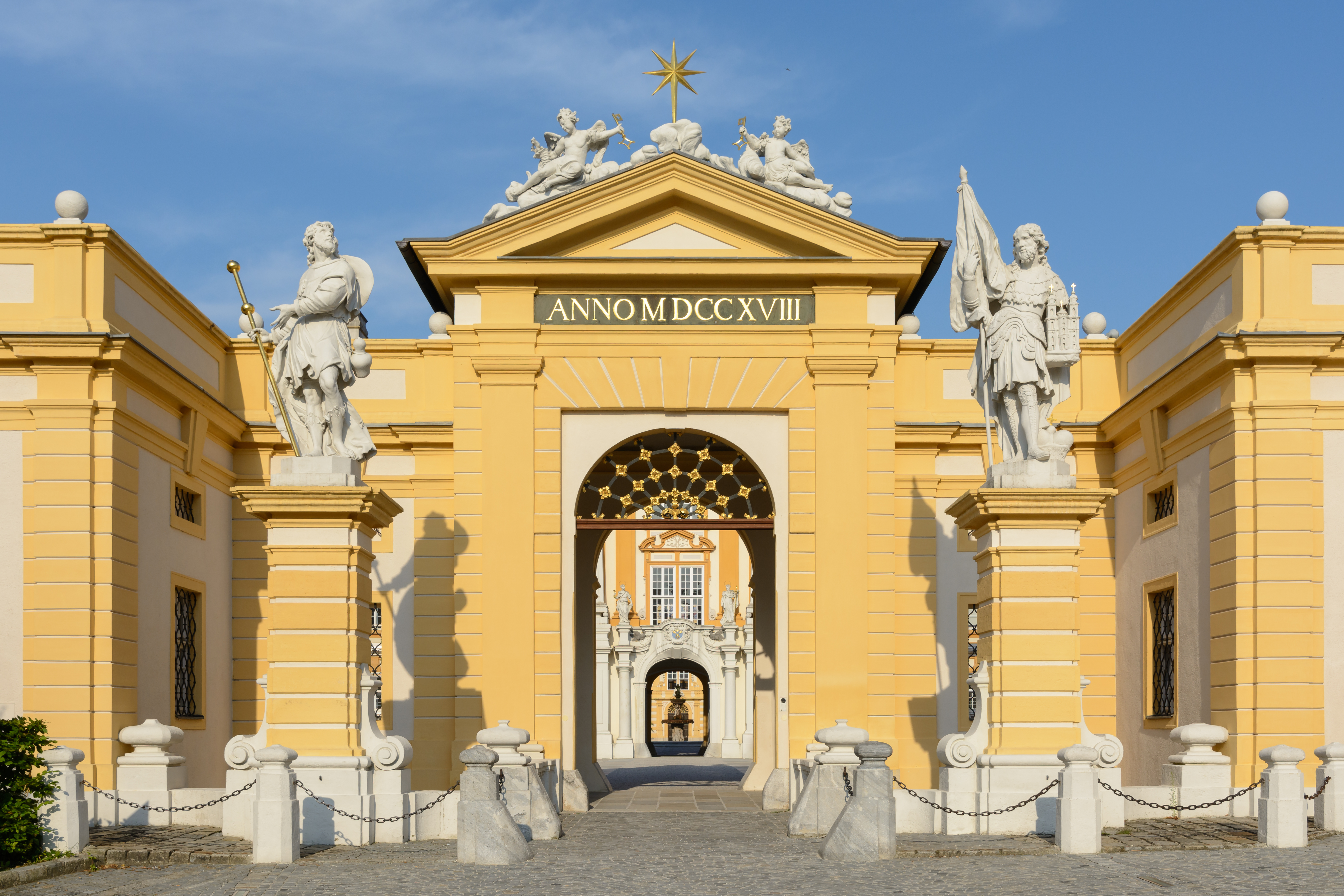 Portal of Melk Abbey, Lower Austria